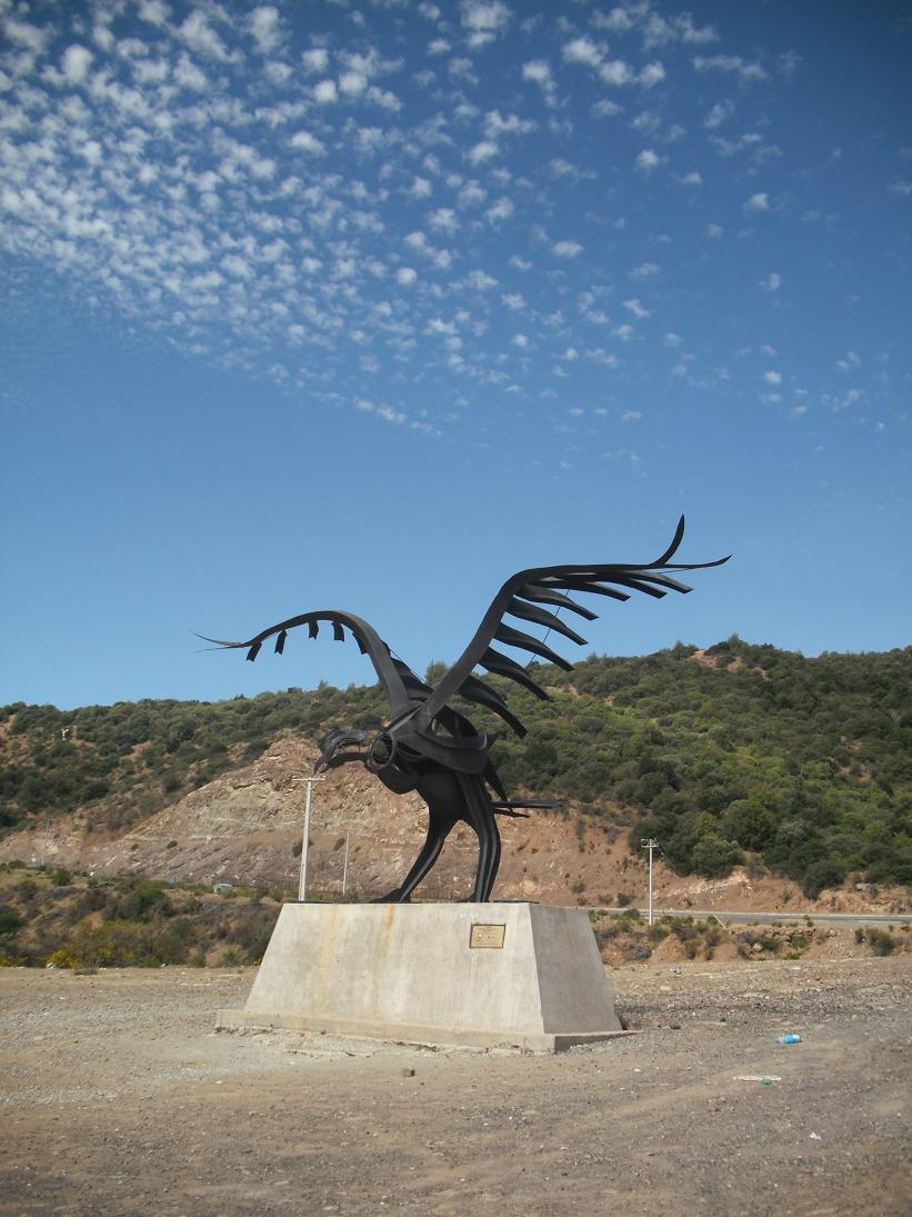 «Vultur Espiritu de los Andes»